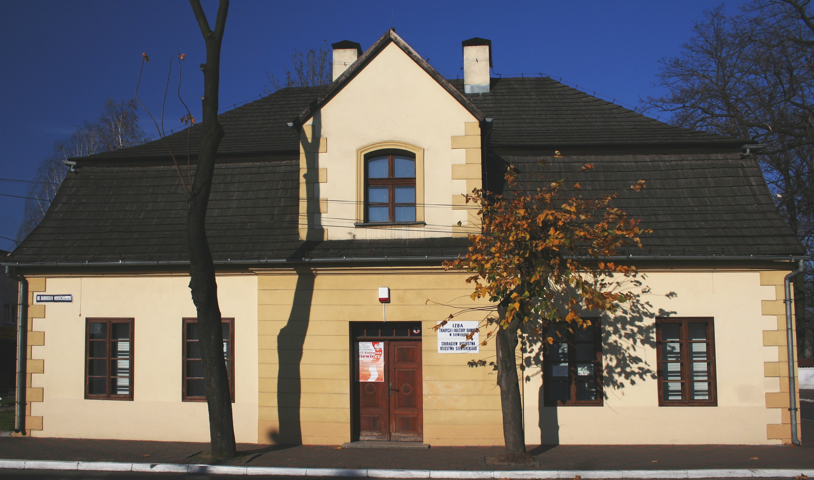 Siewierz, Poland